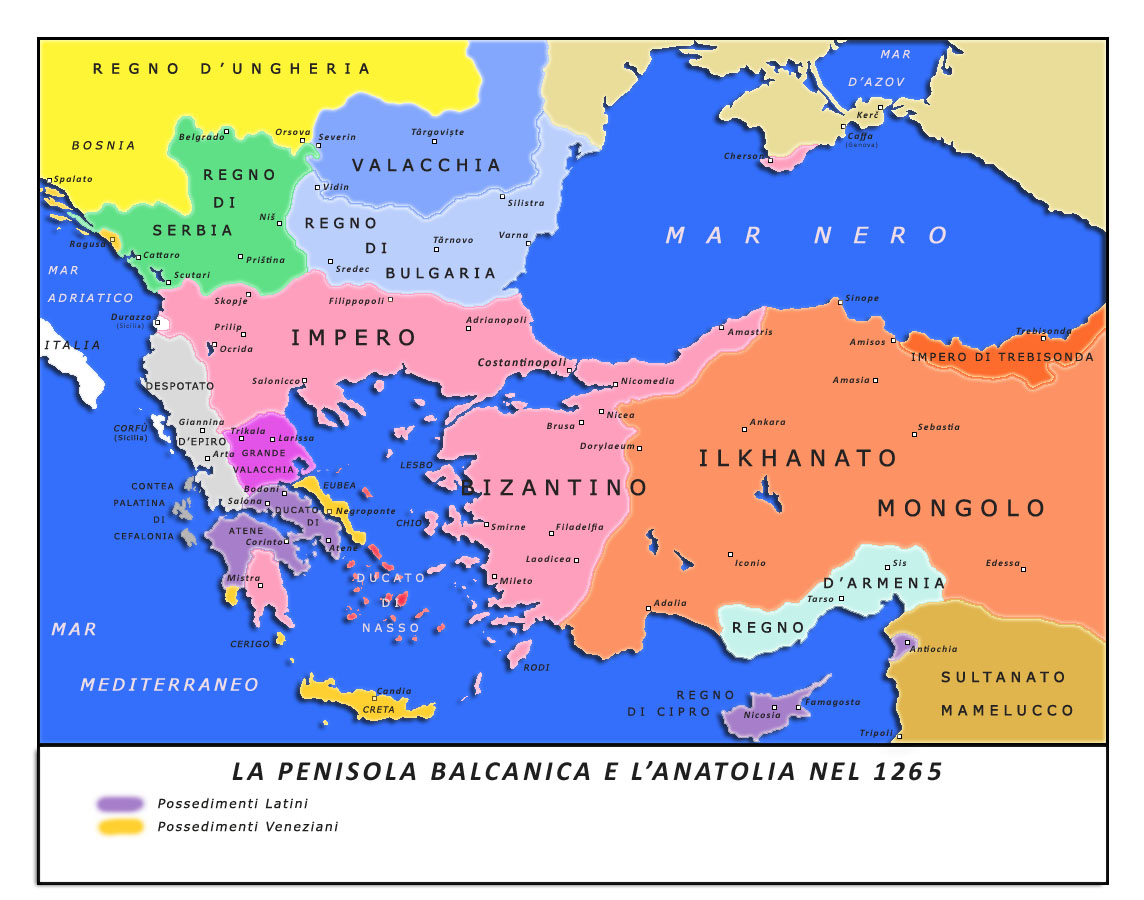 The Balkan peninsula and Anatolia in 1265